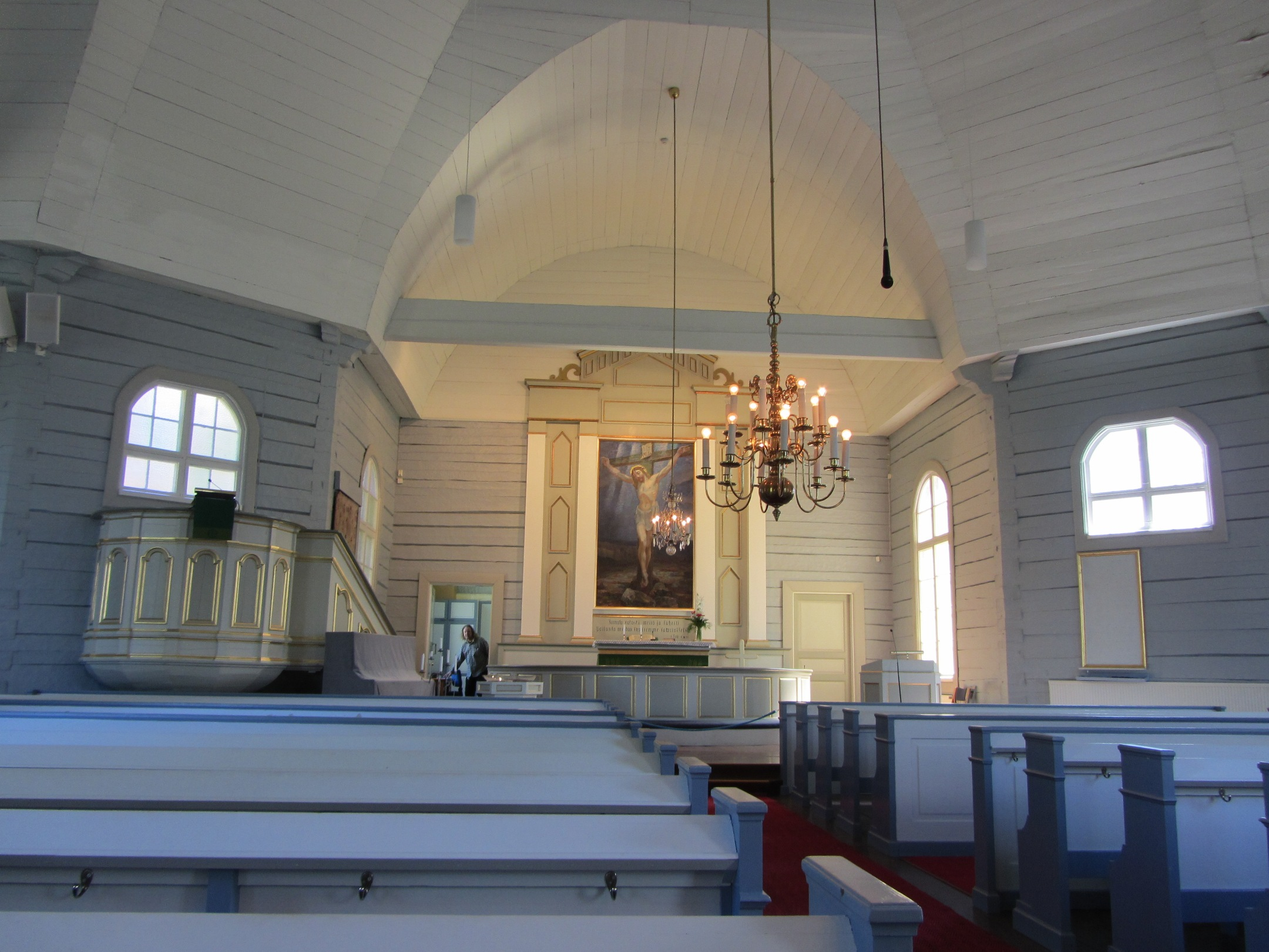 Joutsa Church - Interior